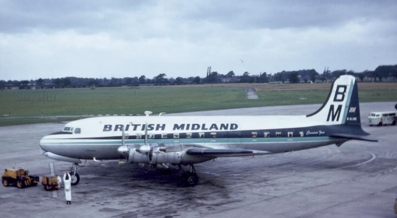 British Midland Canadair C4 G-ALHG at Manchester Airport